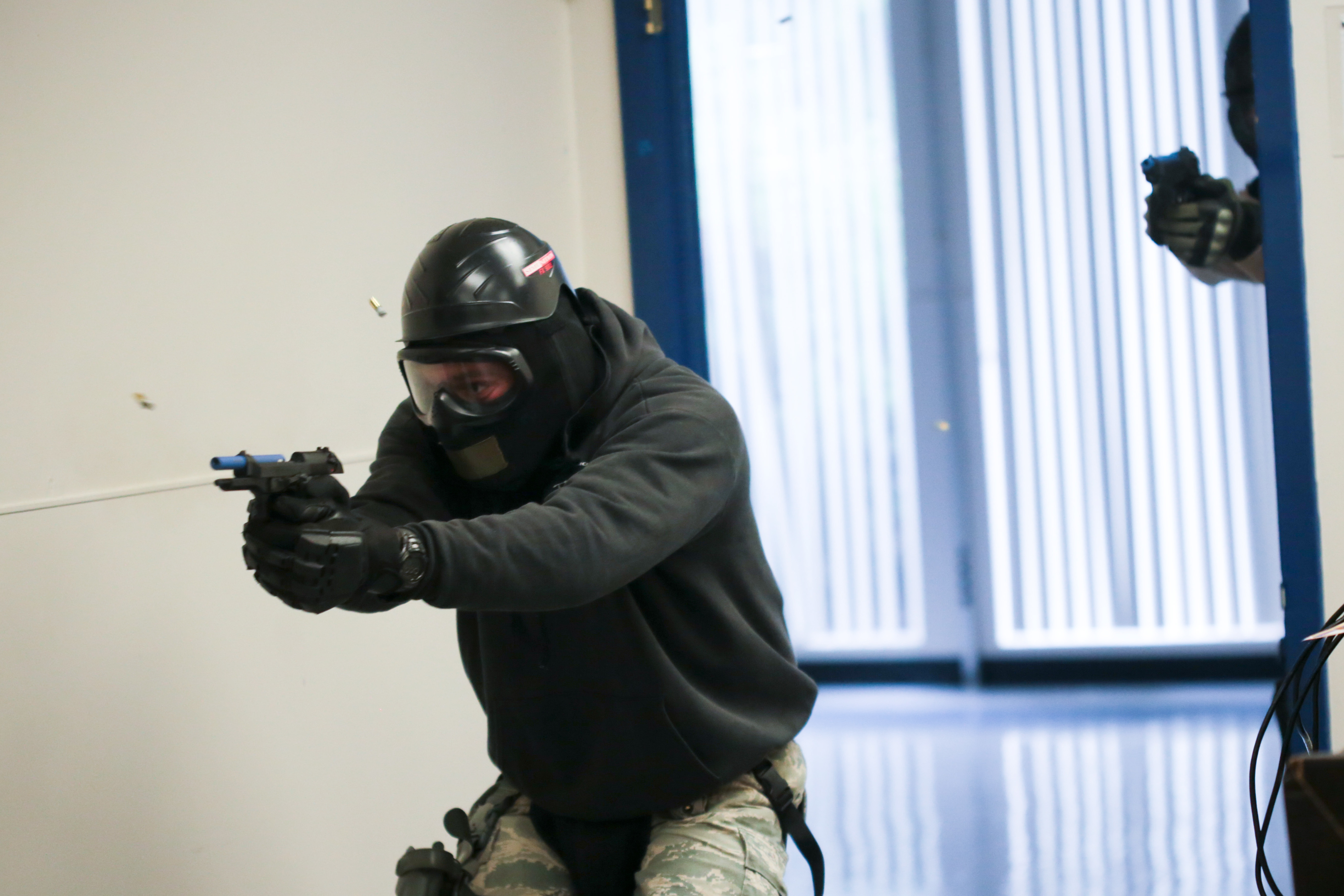 U.S. Air Force Master Sgt. Jeffrey Tafrow from New Jersey Air National Guard's 177th Security Forces Squadron enters a room and engages a simulated shooter during active shooter training at Atlantic Cape Community College in Mays Landing, N.J. on Sept. 24, 2014. New Jersey Air National Guard, U.S. Coast Guard, and local law enforcement officers were taught Active Shooter Level I training by an Air Force Reserve mobile training team from the 610th Security Forces Squadron, which is based out of Naval Air Station Joint Reserve Base Fort Worth. (U.S. Air National Guard photo by Tech. Sgt. Matt Hecht/Released)